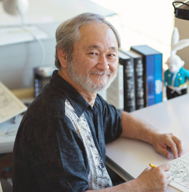 Stan Sakai, in his studio, 2015. Photo by Emi Fujii.